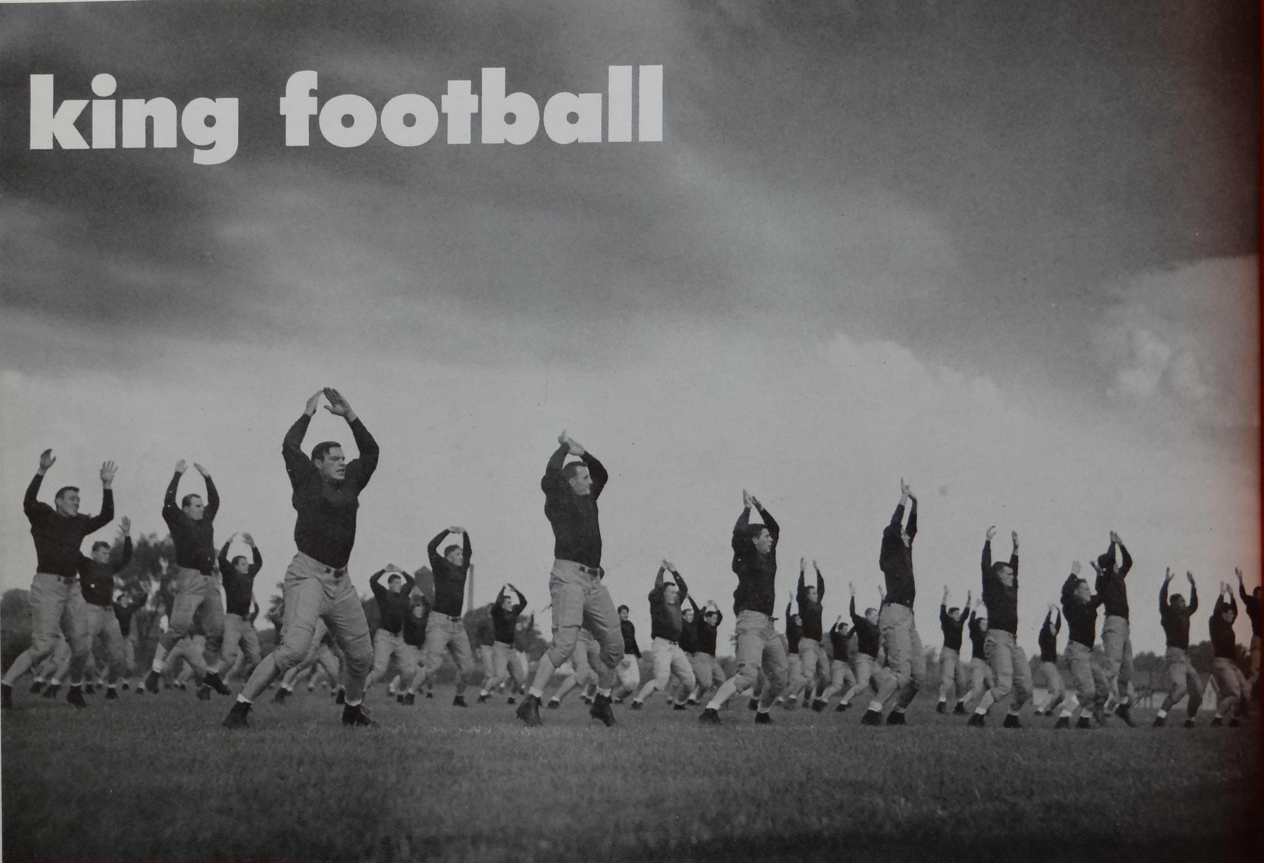 Photograph of members of the 1947 Michigan Wolverines football team engaged in calisthenics Photograph of members of the 1947 Michigan Wolverines football team engaged in calisthenics